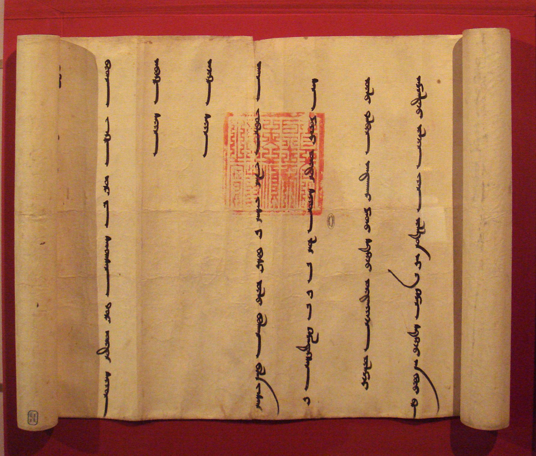 Letter from Oljeitu to Philippe le Bel, 1305. Transcription of the introduction: "Olziit Sultan ug maani. Iridfarans (Roi de France) Sultanaa. Ertnees ta buriin Frankuud irgenii sultad manai sain elents, sain ovog, sain etseg, sain akh dor amraldaj, khol beer bogoos oir met setgej, alivaa ugsee ochij, elchinee, esnii belguudee ilgeeldseniig yu andakhun ta?" Translation of the introduction: "Oljeitu Sultan our word. To the Iridfarans (King of France) Sultan. How could it be forgotten that from ancient times all you sultans of the Frank citizens have dealt peacefully with our good great-grandfather (Hulegu Khan), good grandfather (Abaga Khan), good father (Arghun Khan) and good brother (Ghazan Khan), esteeming us near although you are far, pronouncing your various words and sending your ambassadors and gifts of health-wishing?" Transcription of another line: "Naran urgakhui Nankhiyasiin ornoos avan Talu dalai khurtel ulus barildaj zamuudaa uyuulav." Translation of the line: "Our nation has been interlocked (peacefully connected) from the land of the Nankhiyas (plural for 'South Chinese') where the sun rises to the Talu Ocean (Mediterranean Sea) and our roads have been tied together." Red seal imprint with ten seal script Chinese characters: 真命皇帝天順萬夷之寶 Zhēnmìng huángdì tiānshùn wànyí zhī bǎo ("Precious seal of the Emperor truely mandated [by Heaven] to pacify the ten thousand foreign peoples").